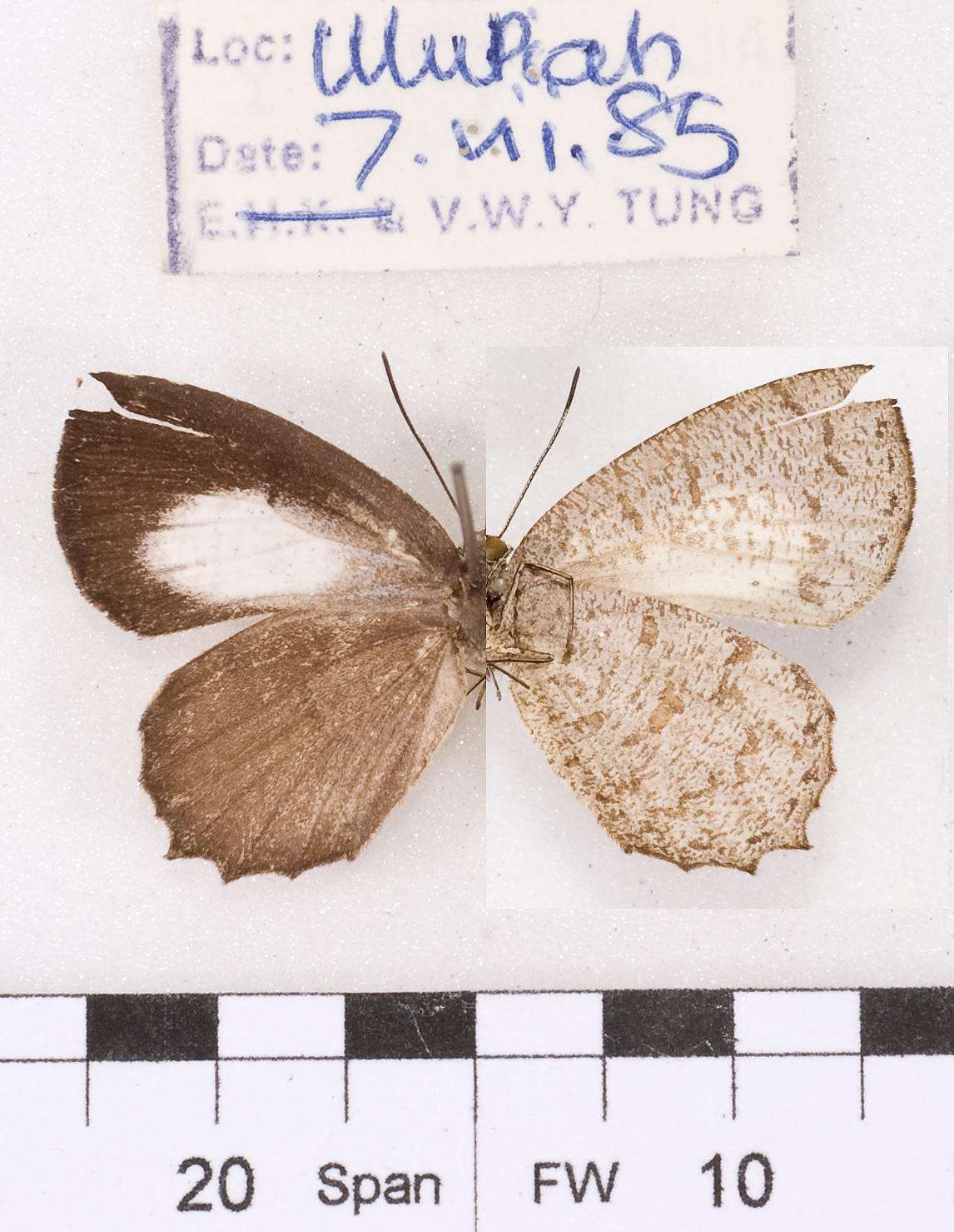 Allotinus fallax apus, female, set specimen, Sumatra, Alan Cassidy photo.